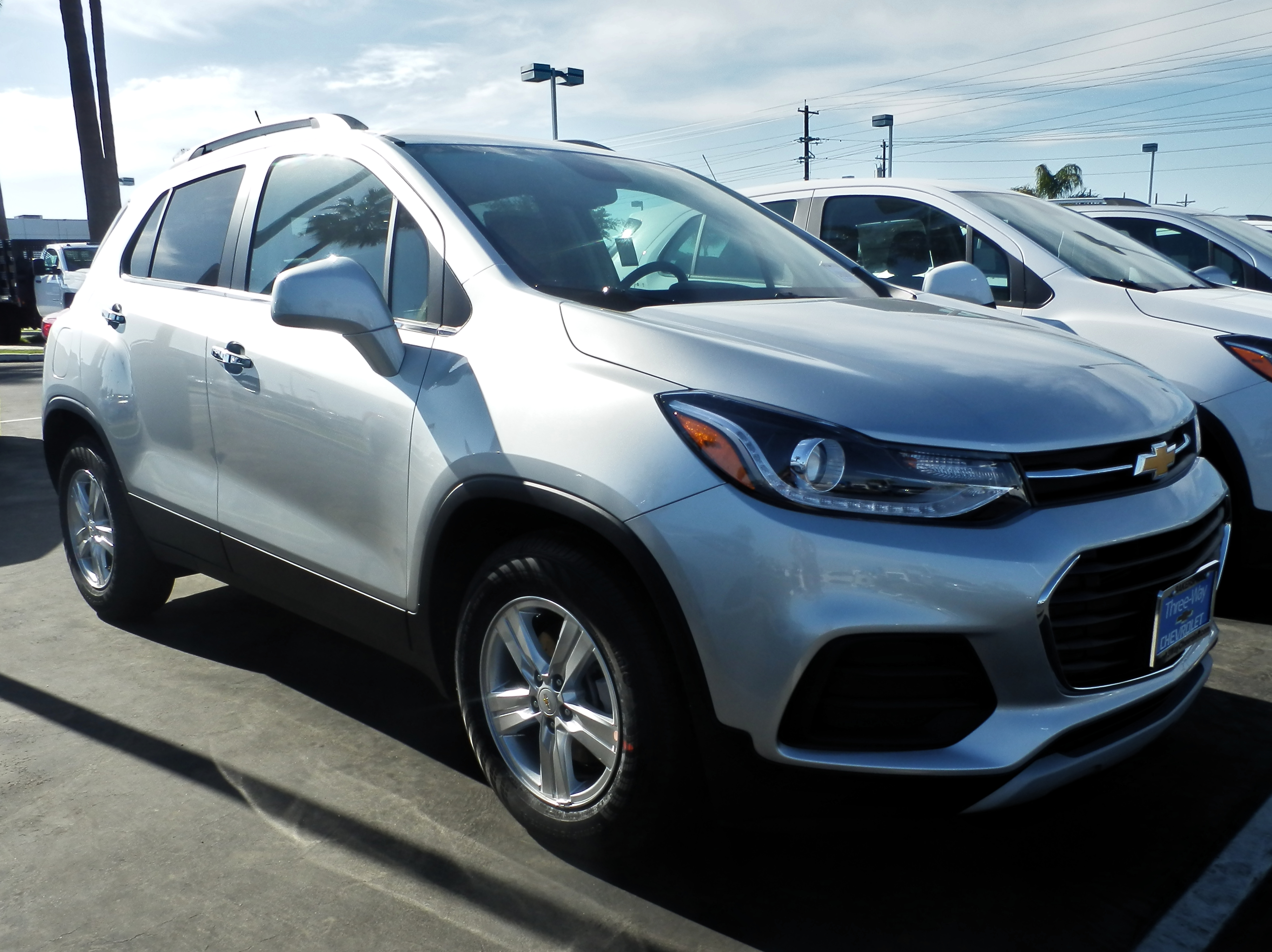 Chevrolet Trax in Bakersfield